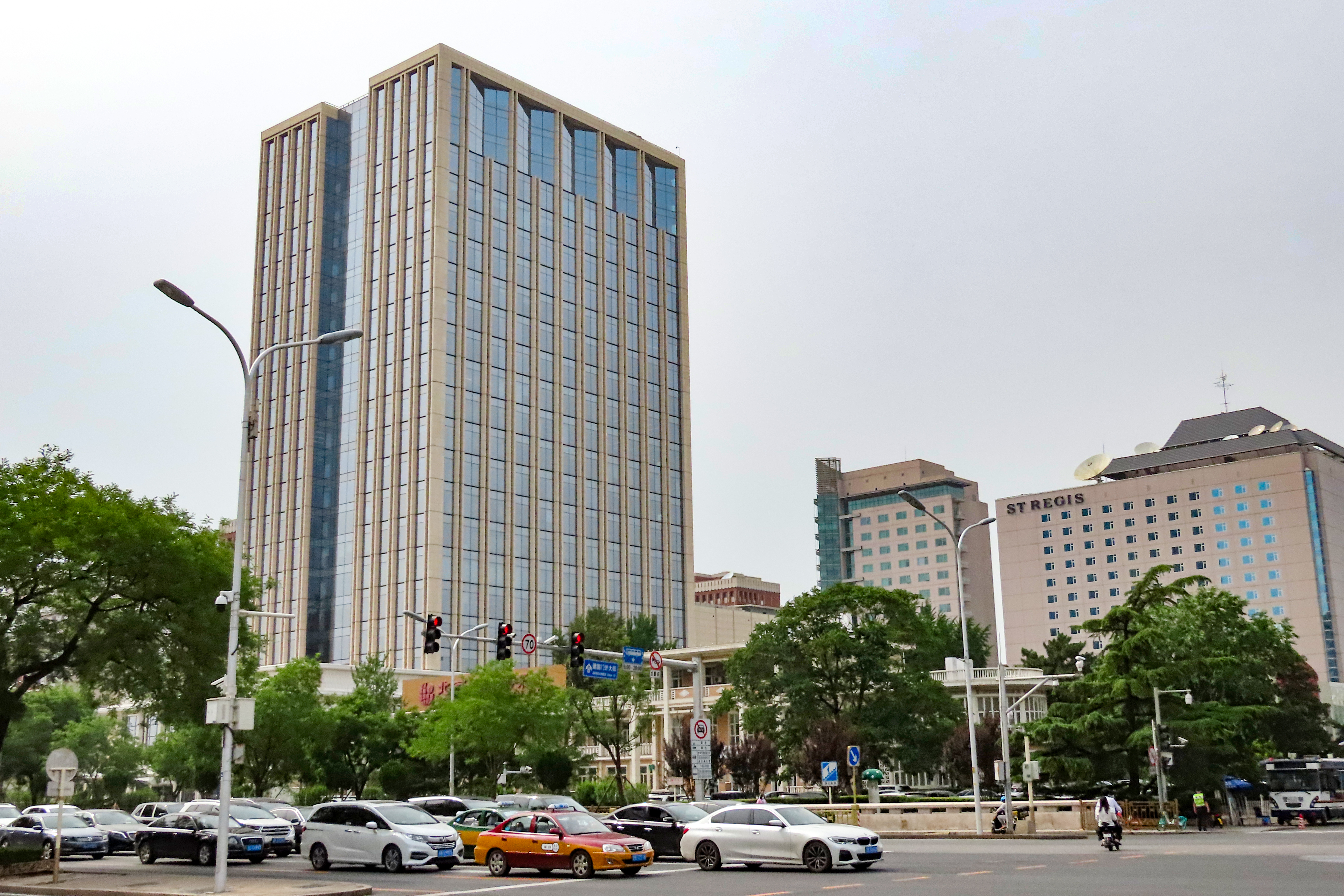 Includes St. Regis Beijing.